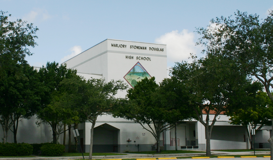 The front side of Marjory Stoneman Douglas High School, located in Parkland, Florida.